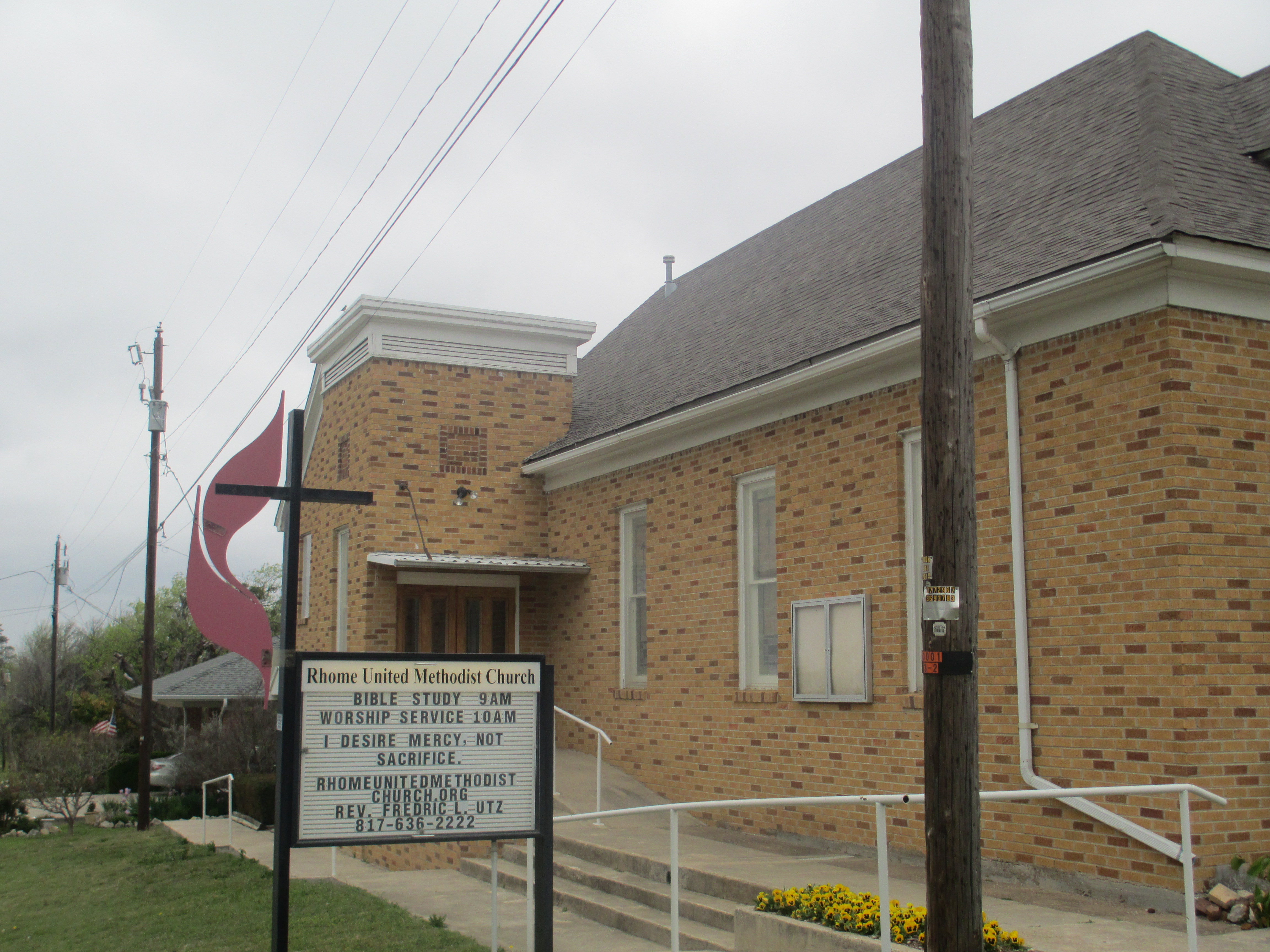 I took photo of United Methodist Church in Rhome, TX, with Canon camera, April 7, 2013. Billy Hathorn (talk) 20:17, 9 April 2013 (UTC)